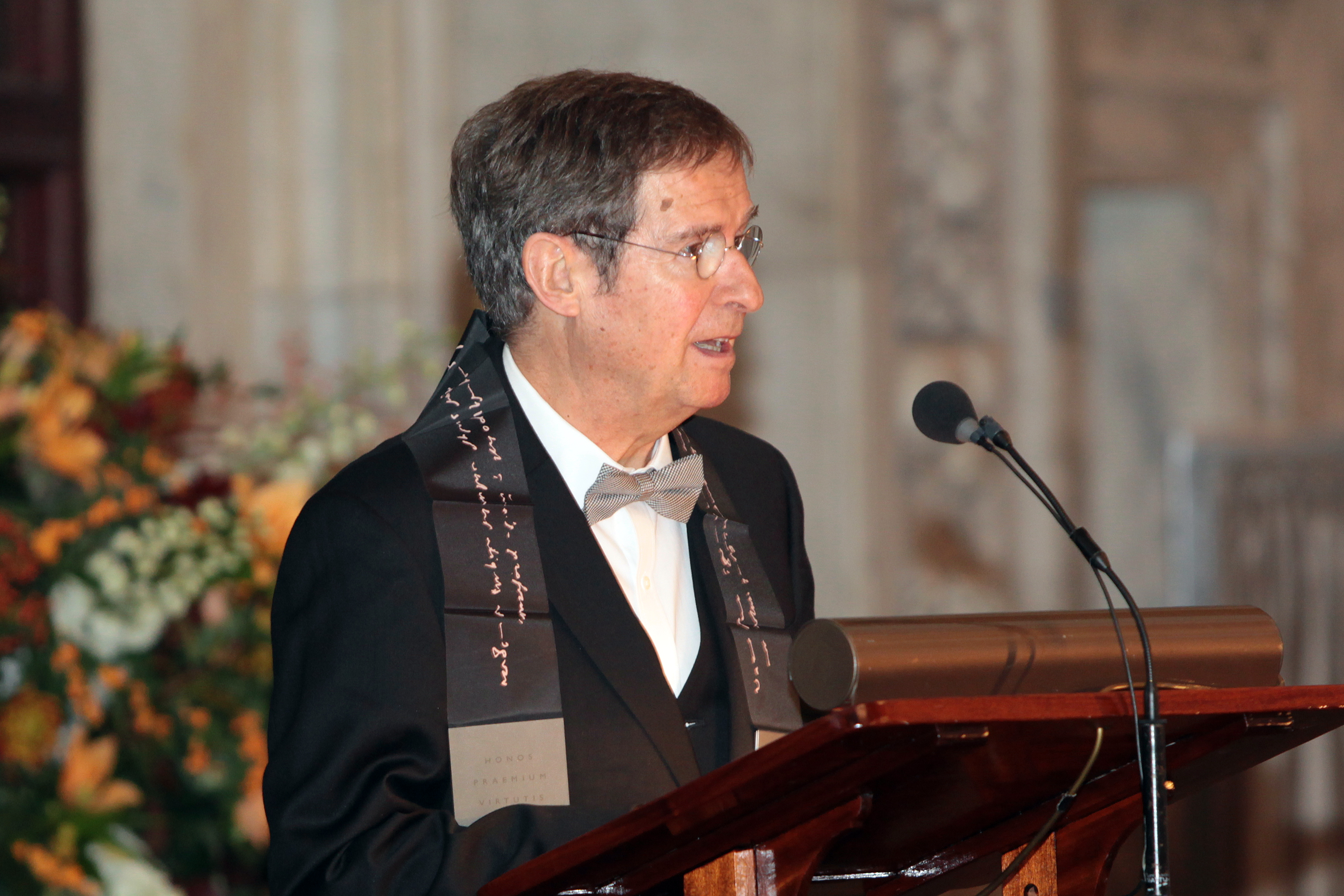 Joan Busquets, acceptance speech Erasmus Prize 2011 (the Netherlands). Photograph: Courtesy of the Praemium Erasmianum Foundation.